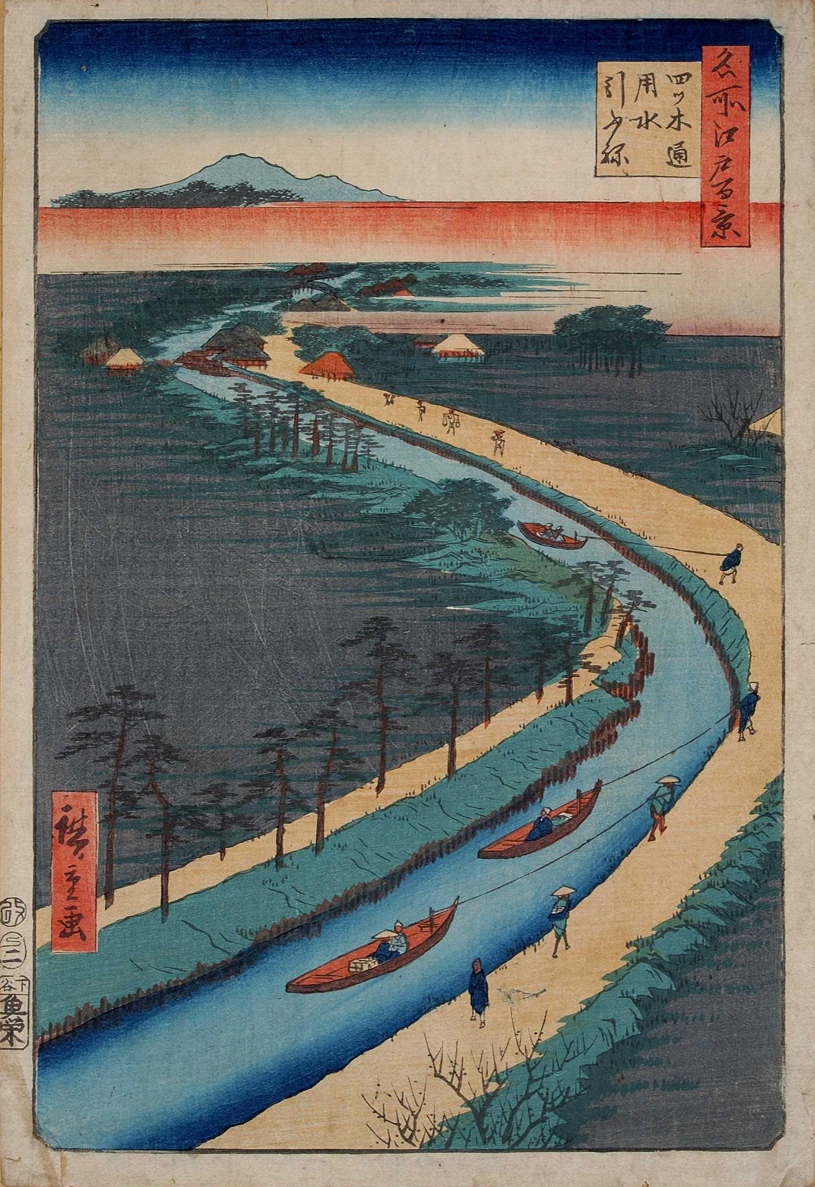 Part of the series One Hundred Famous Views of Edo, no. 033, part 1: Spring.